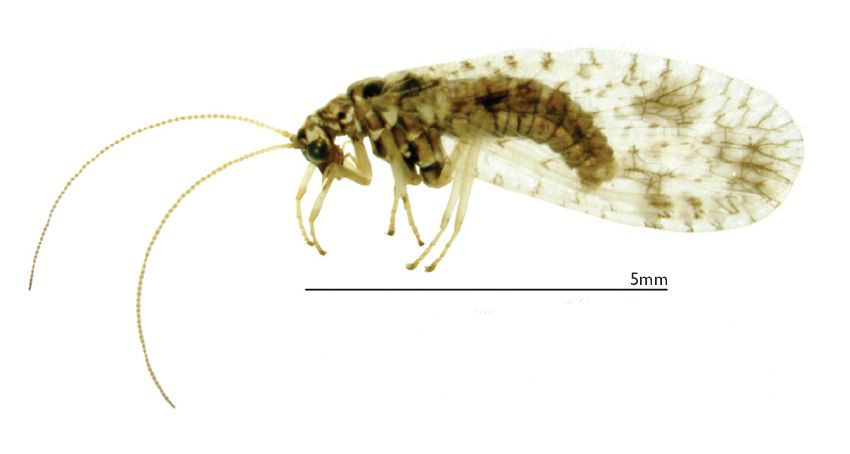 Lateral image of Micromus variegatus (Fabricius), based on a specimen captured in Québec.